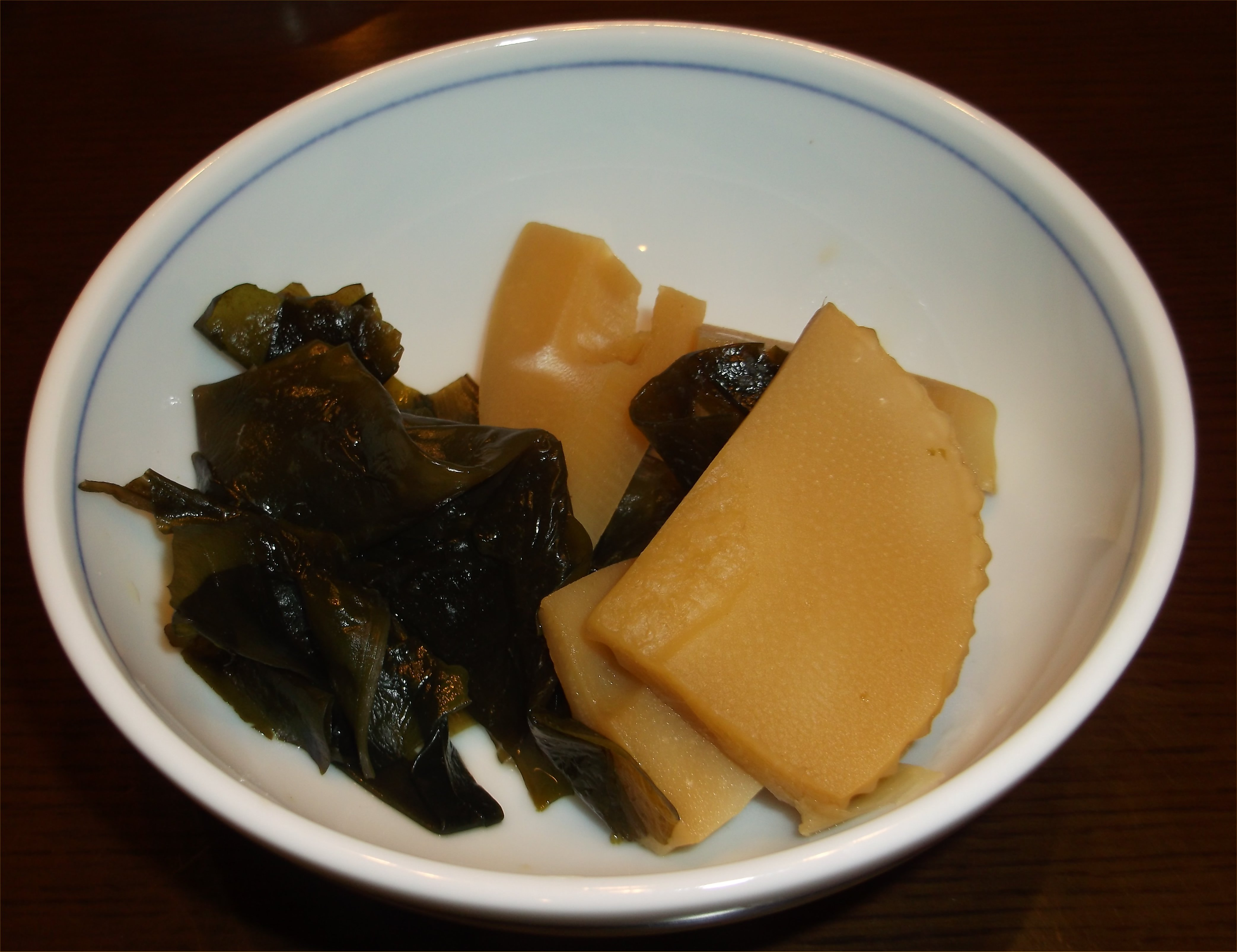 A photo of Japanese cuisine"Wakatakeni"(a Japanese simmered dish(nimono) made from seaweed(wakame) and a bamboo shoot)